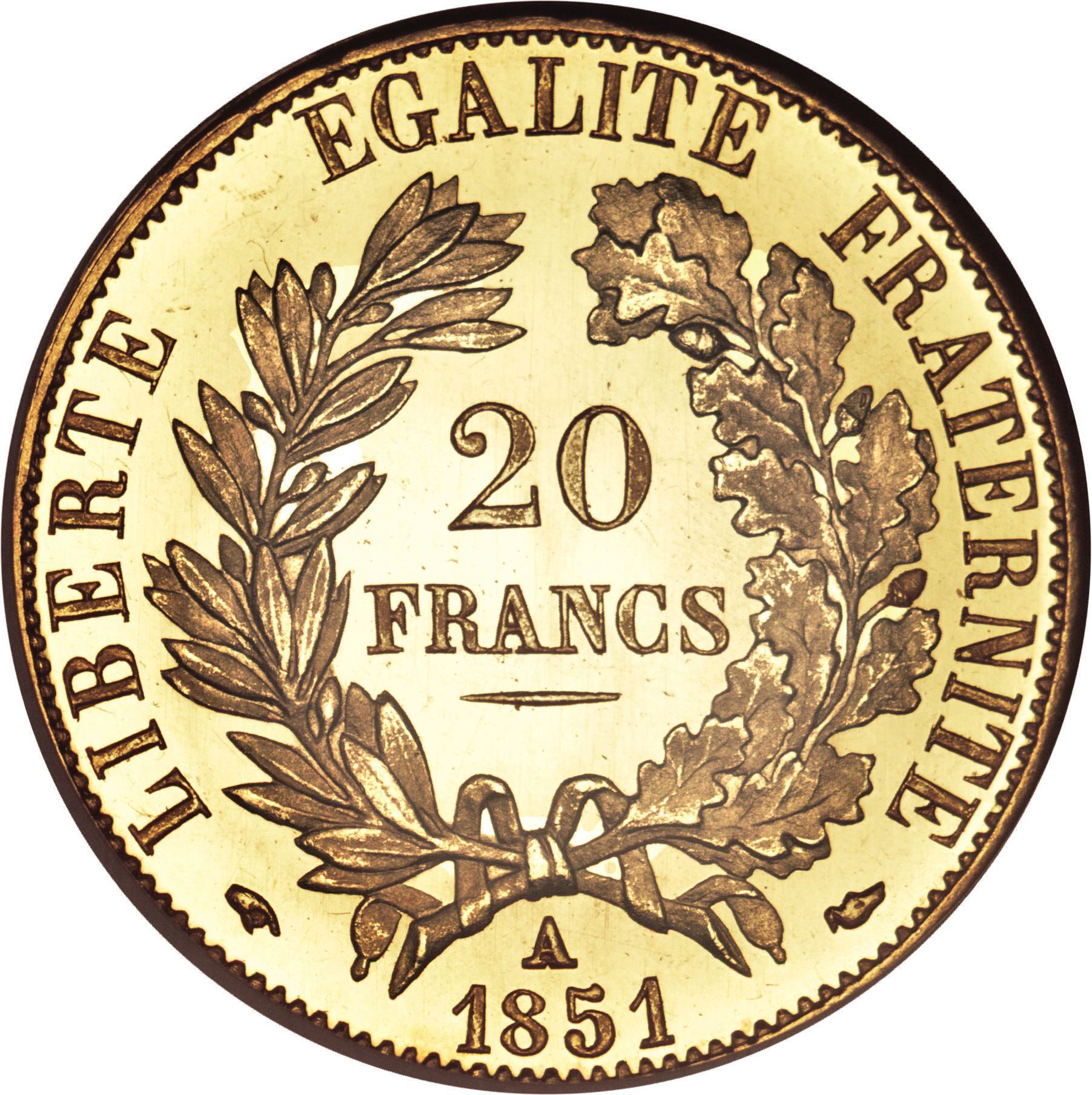 20 francs 1851 coin